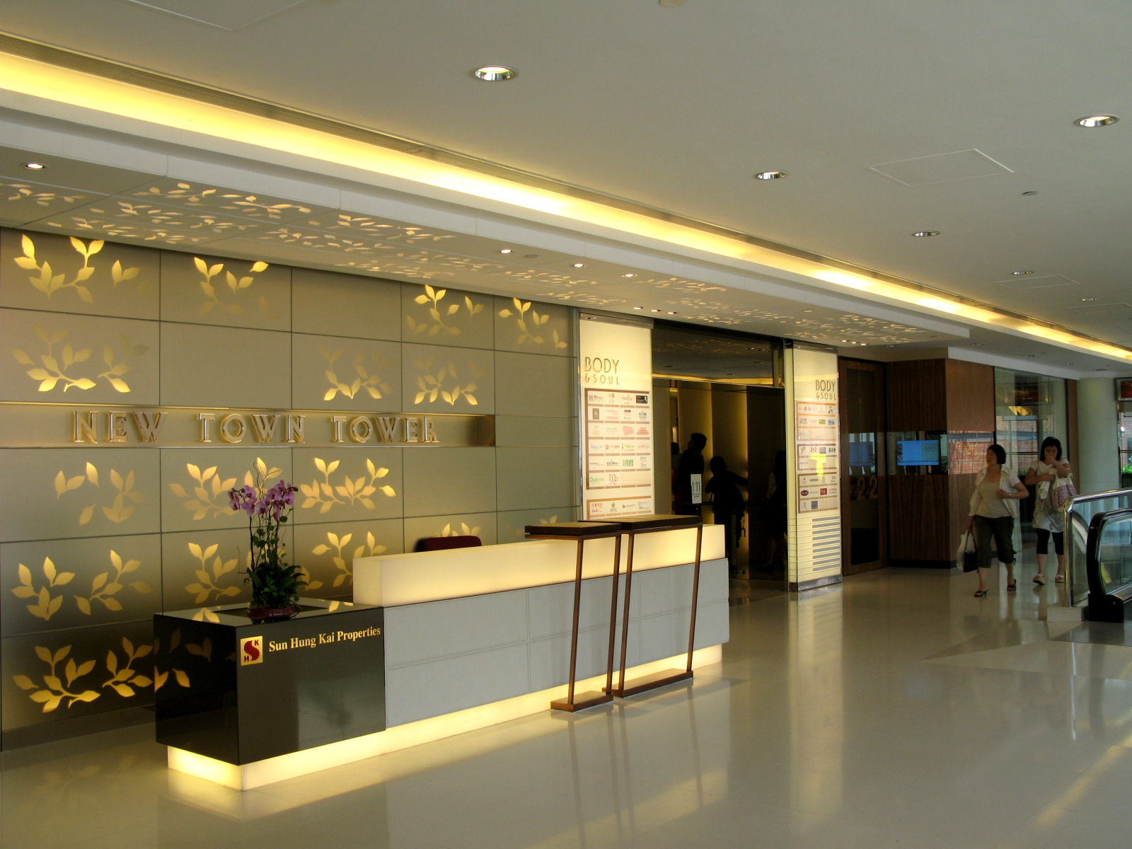 New Town Tower Lobby